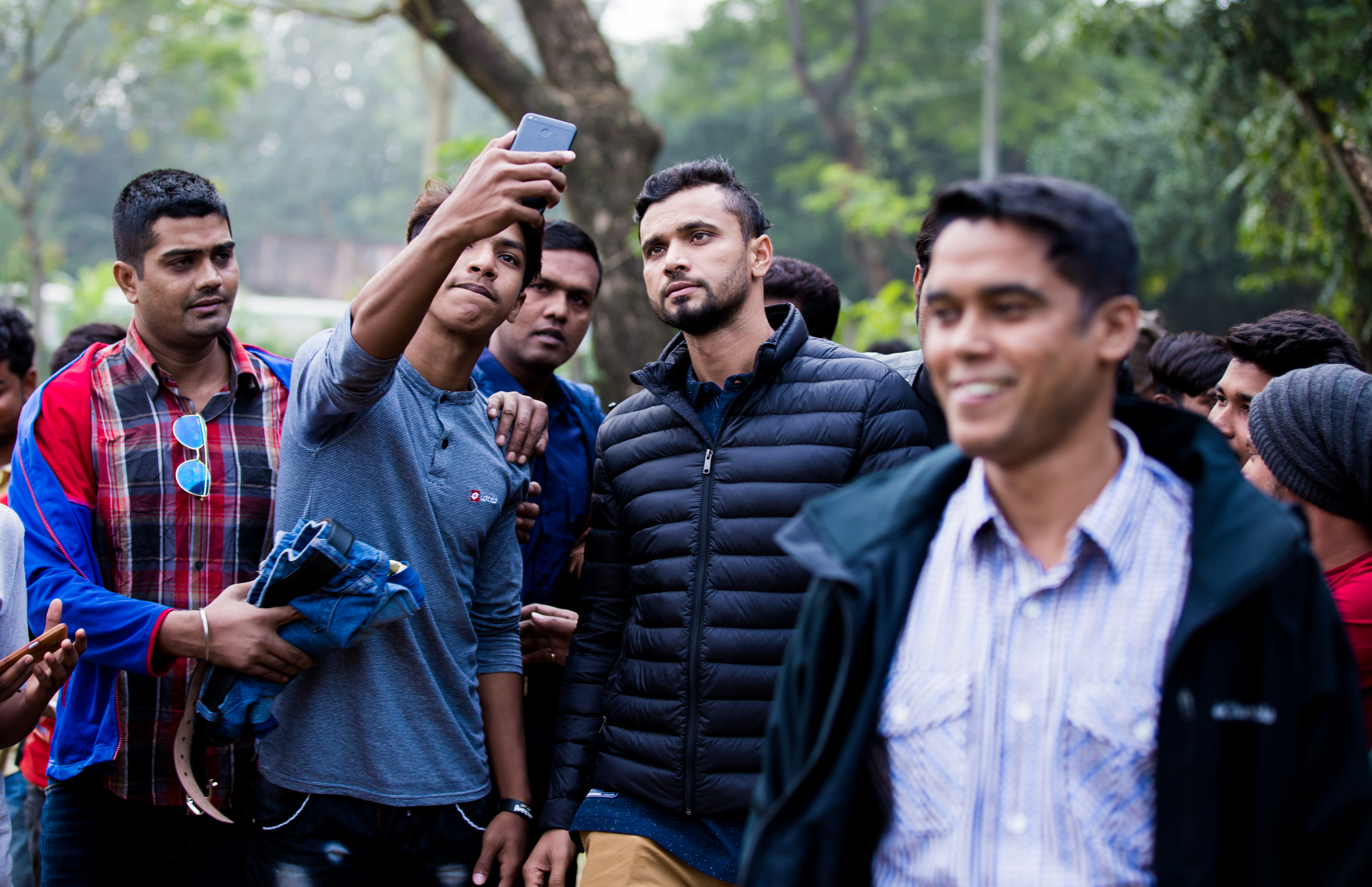 Fans are taking selfie with Mashrafe Mortaza.